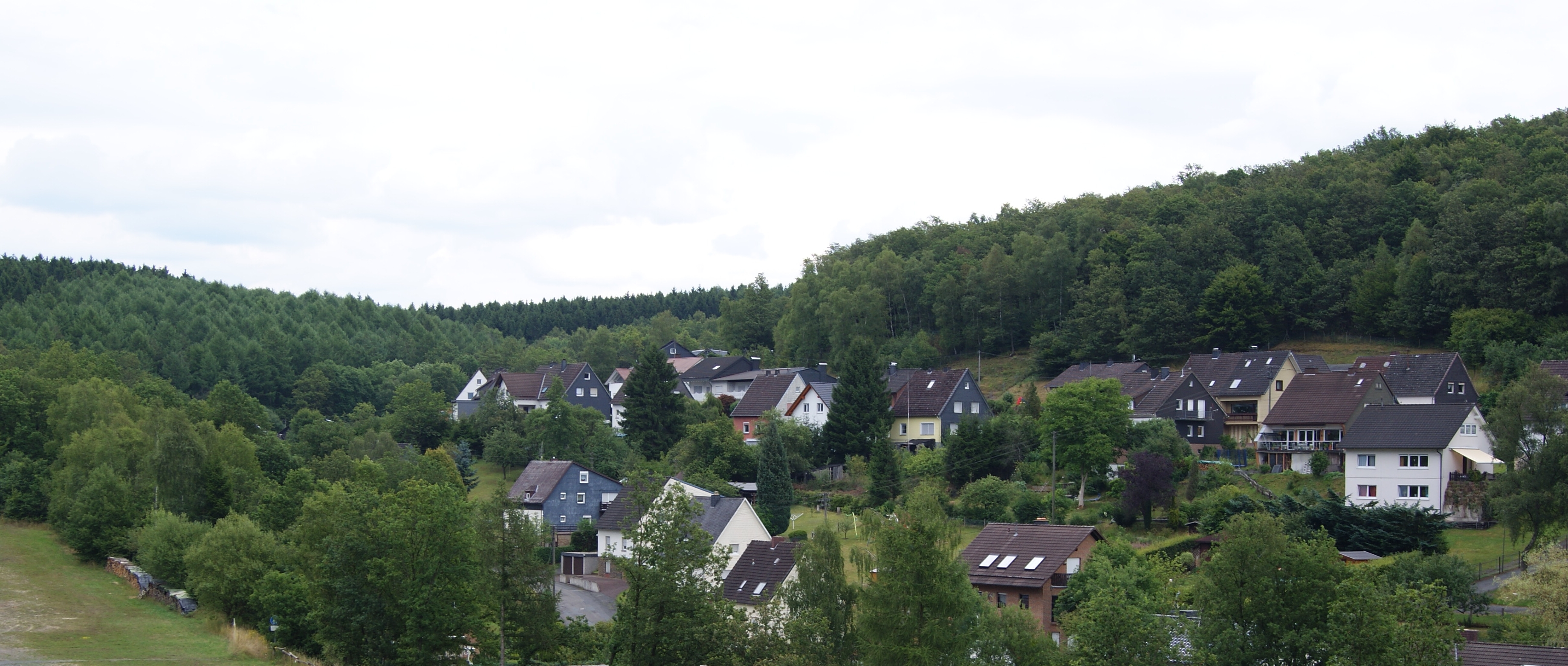 Sasselbach street in Niederndorf; taken in Niederndorf in Freudenberg, Germany.